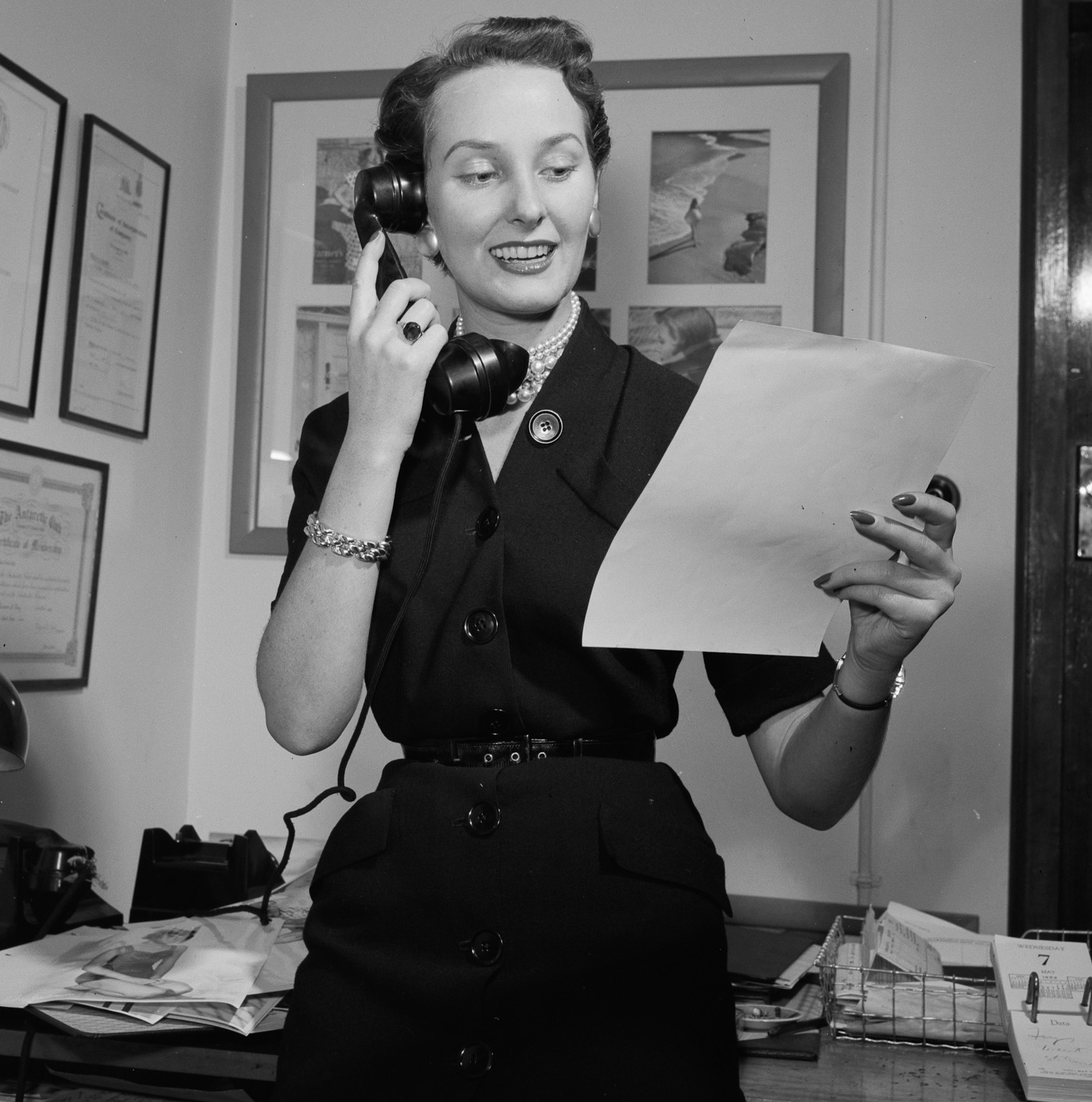 Format: Negative Find more detailed information about this photographic collection: .au/item/itemDetailPaged.aspx?itemID=825624. From the collection of the State Library of New South Wales